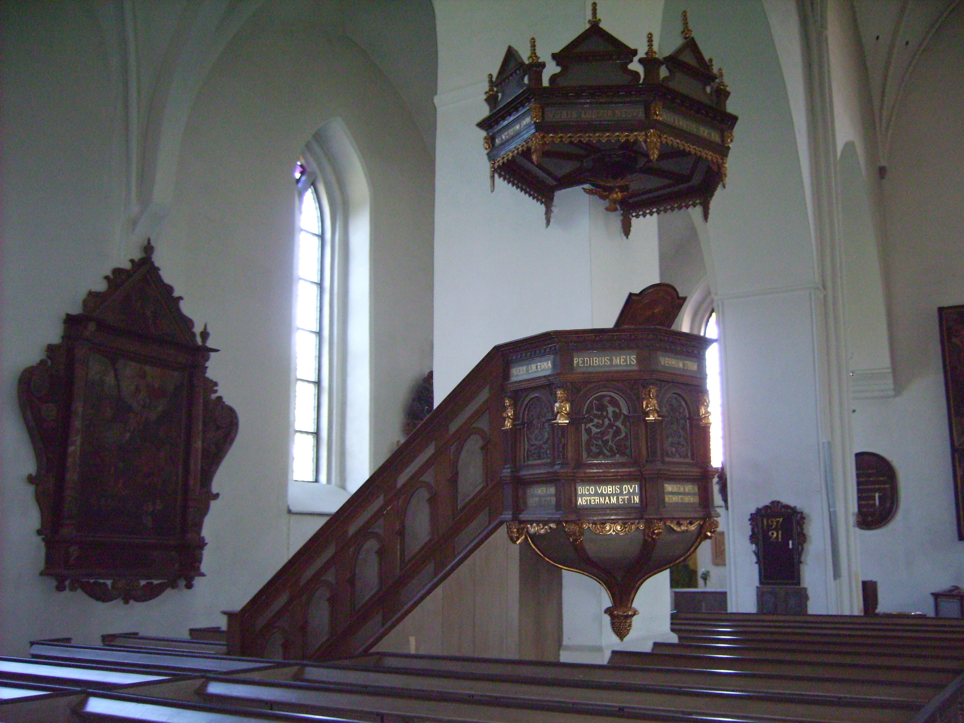 The Middle Age church ”Vårfrukyrkan” in Skänninge, built around 1300 by the German population in the town, the Swedish population had a different church, but after the Reformation this is the only church left in the town, churches and monasteries destroyed by the Swedish king Gustaf Vasa around 1550, when he need stones to his new castle in Vadstena.